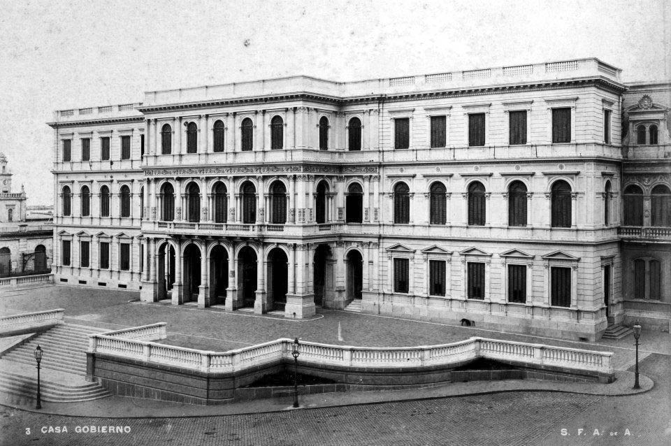 North view of the Casa Rosada of Buenos Aires.